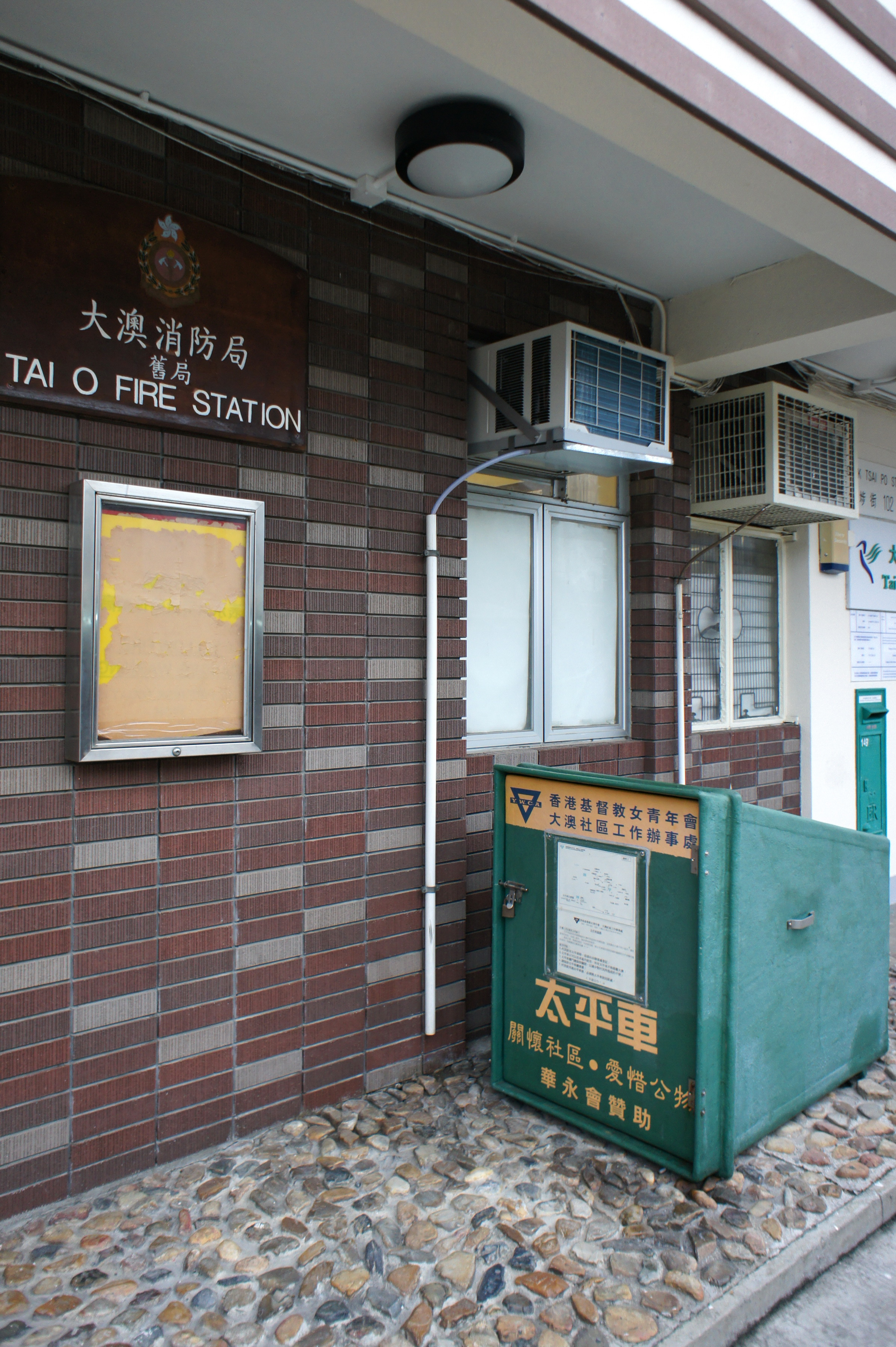 A free wheelchair booth outside of the old Tai O Fire Station. Sponsored by the Hong Kong Young Women's Christian Association Tai O Community Work Office.